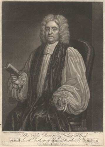 Portrait of Samuel Peploe (1667-1752)